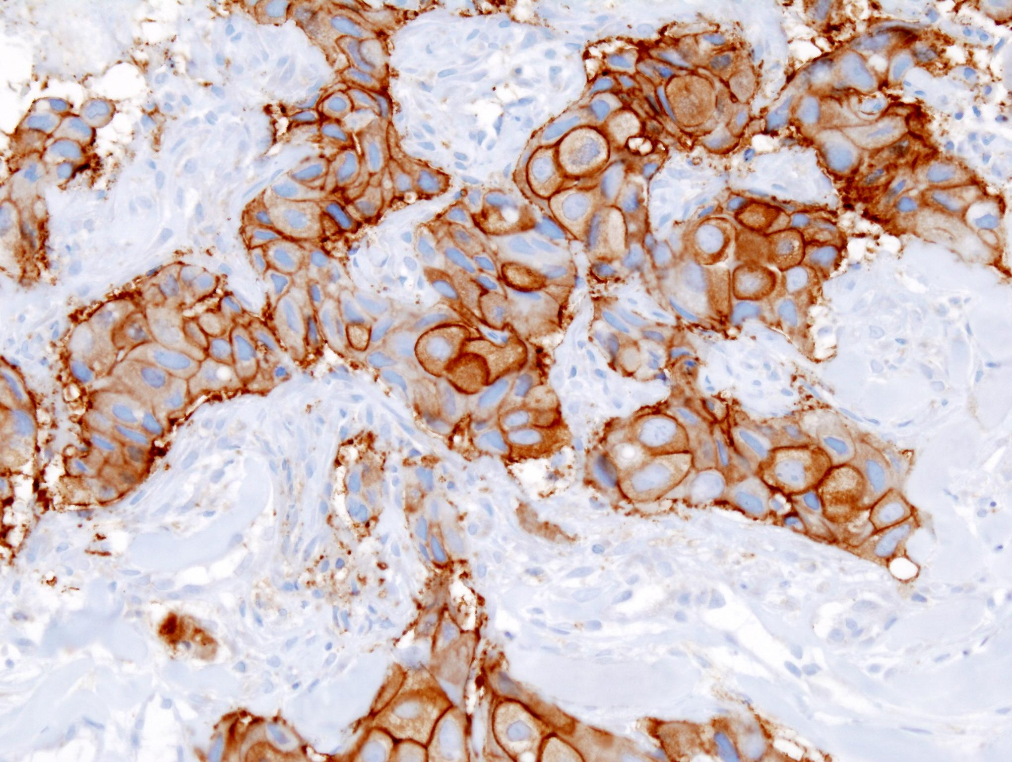 Histopathology of invasive ductal carcinoma of the breast representing a scirrhous growth. Core needle biopsy. HER-2/neu oncoprotein expression by Ventana immunostaining system. The same case as a file "Breast_invasive_scirrhous_carcinoma_histopathology_(1).jpg".